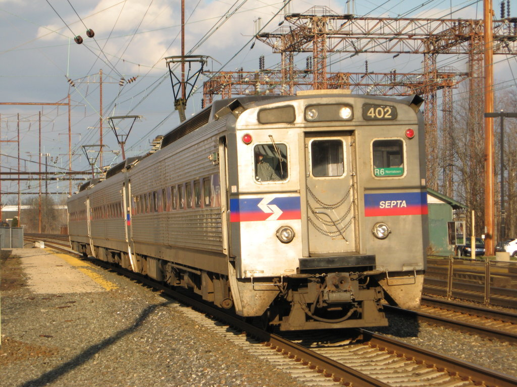 SEPTA Silverliner IV #402 pulls into the Cornwells Heights Station on the R7.